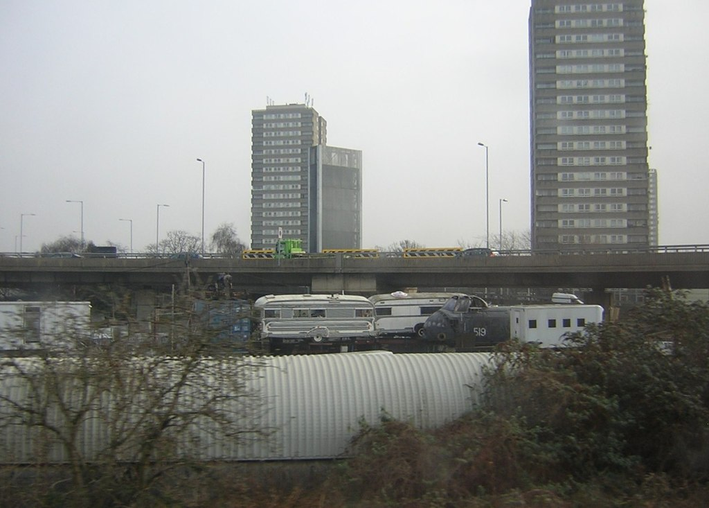 Traveller halting site under the Westway, from the West London Line. London, England. Photo taken in 2012.